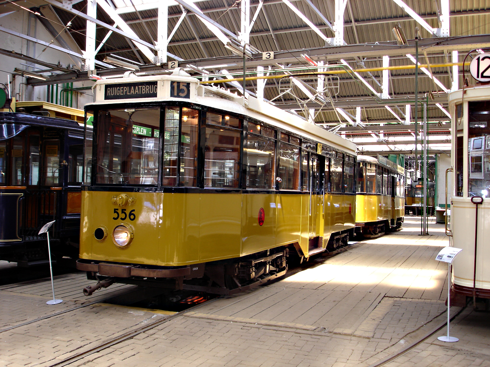 Tram 556 Trammuseum Rotterdam